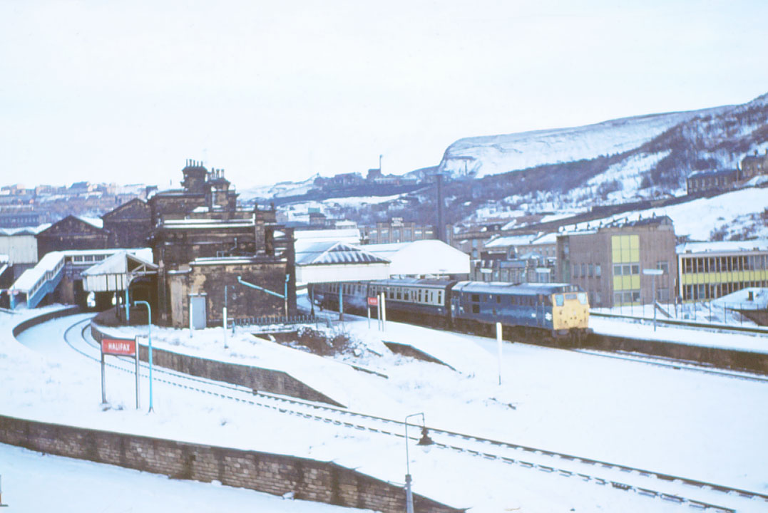 Tue 13 Feb 1973. Brush Class 31 No 5591 awaits departure with the 08:35 train to London at Halifax.